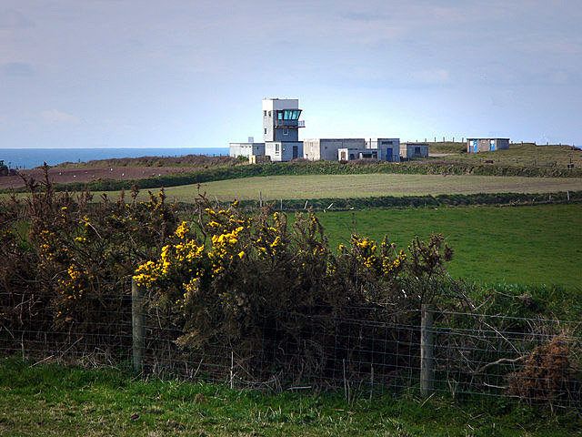 RAF Jurby Head - Isle of Man - .uk - 779039.jpg